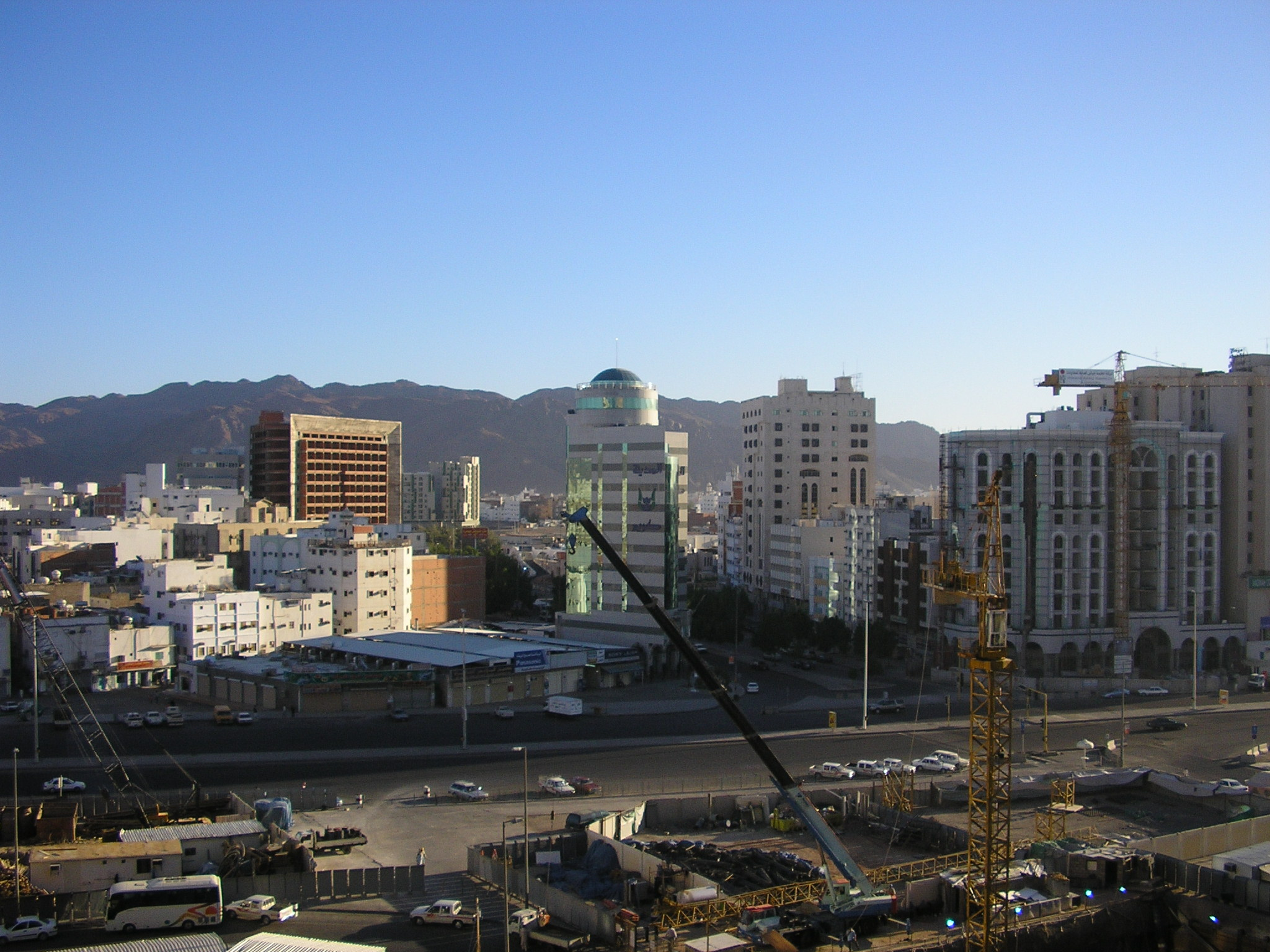 Modern Medina.